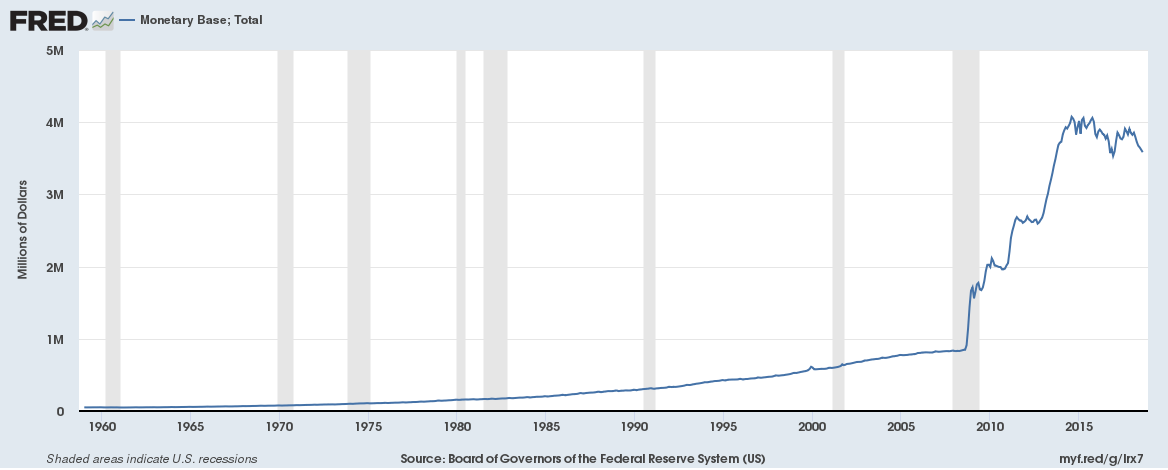 Graph of the Monetary base in Millions of Dollars from 1959-01-01 to 2018-08-01.